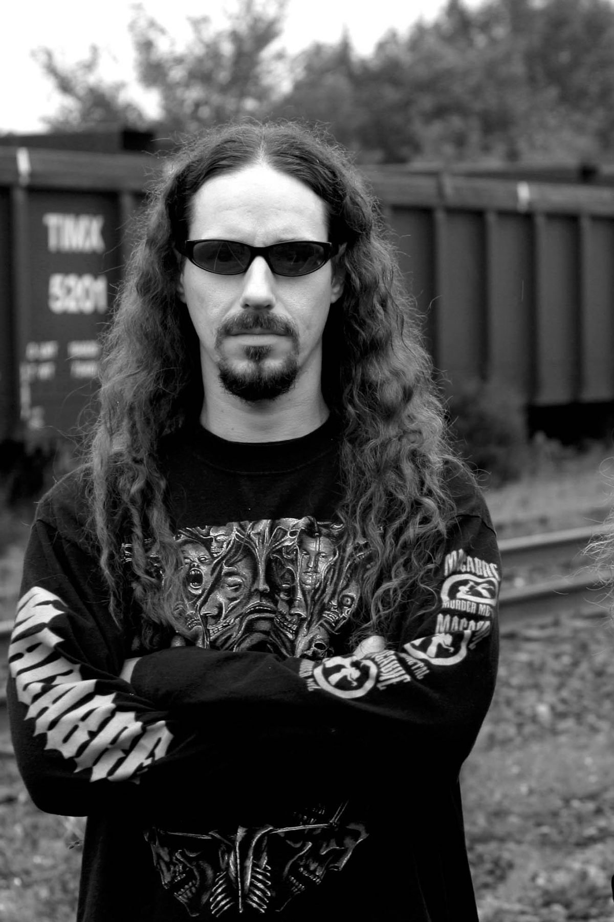 Derek Roddy 2003